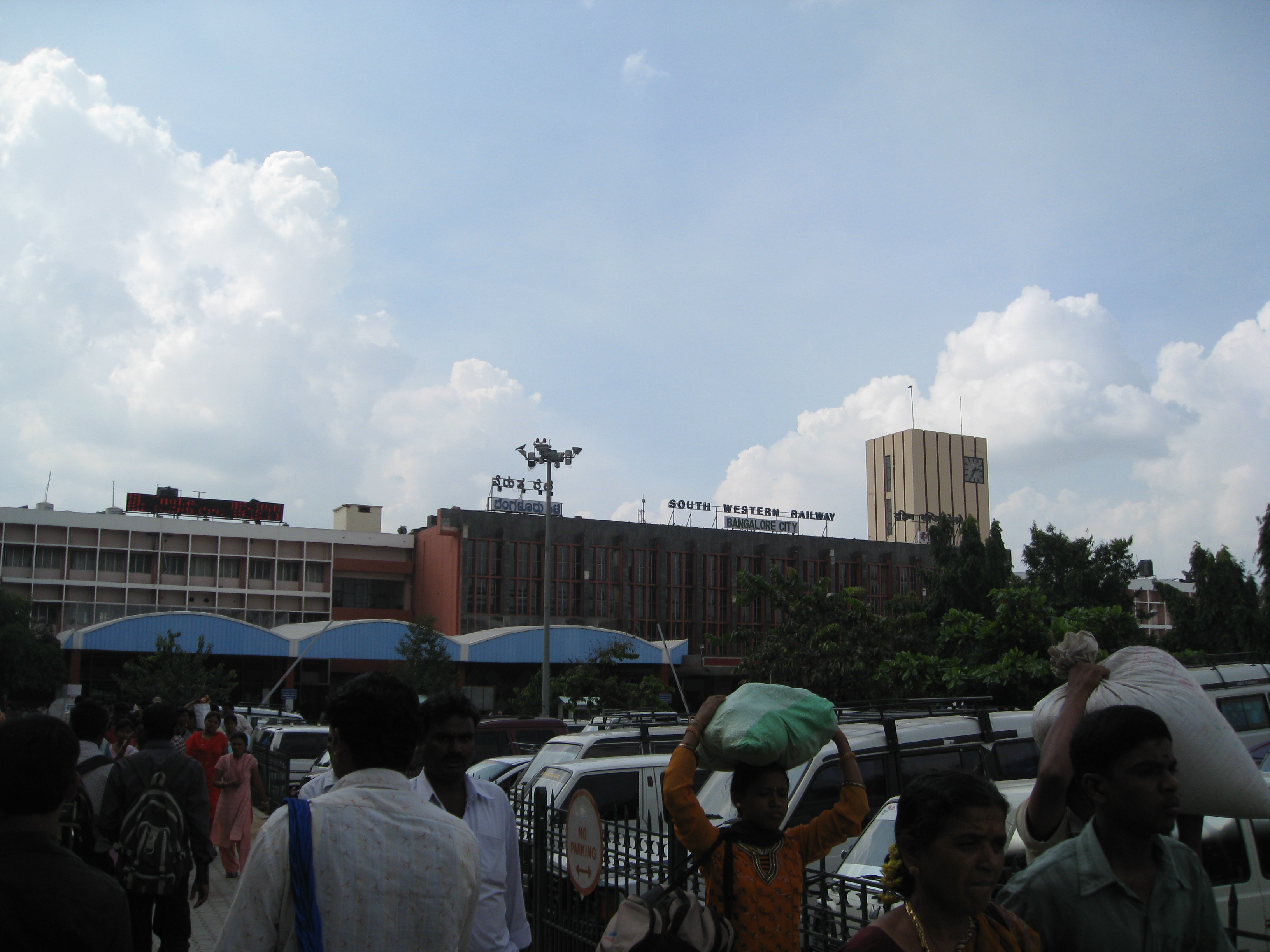 Bangalore City Railway Station.